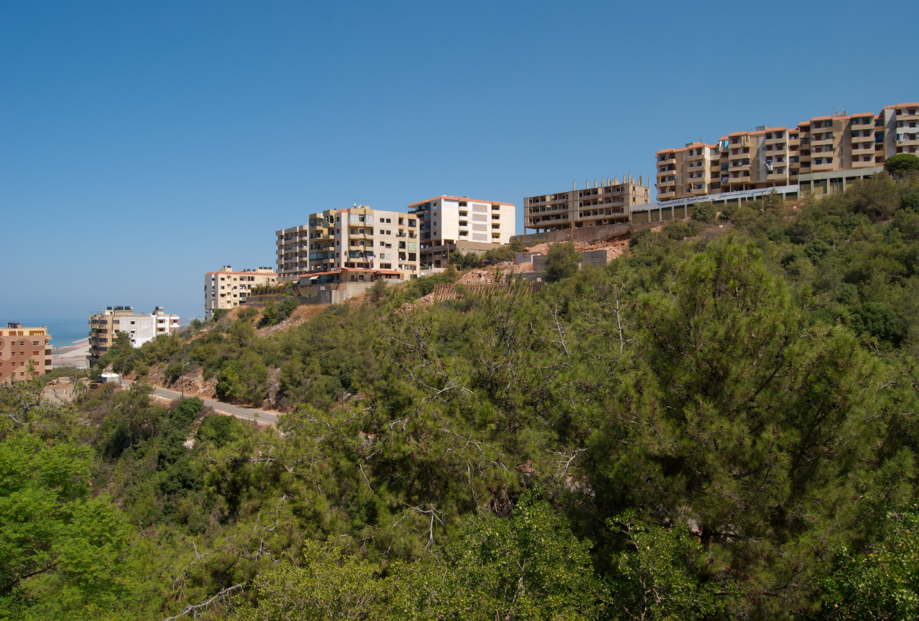 Skyline of Bchamoun (or Bechemoun) in the Mountains of Lebanon overlooking Beirut